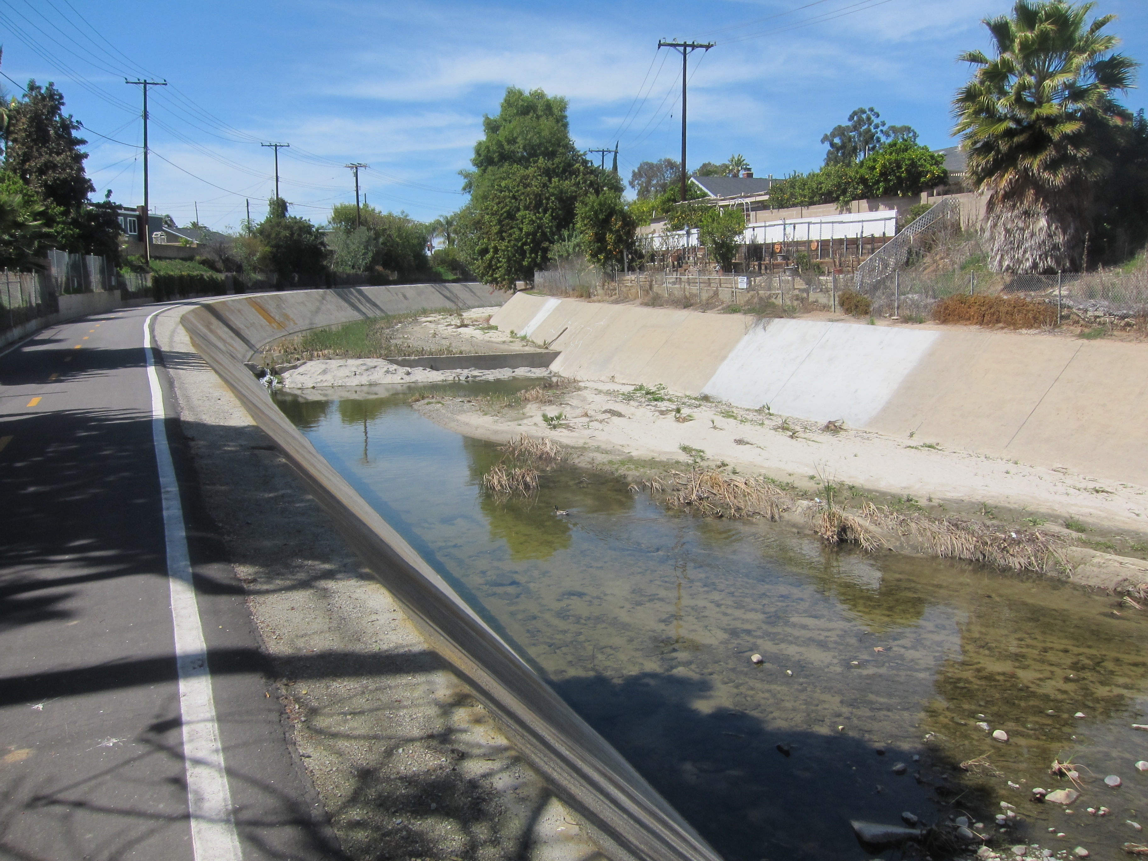 Aliso Creek above I-5 in Lake Forest, CA